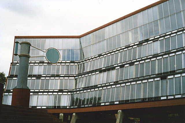 The Florey Building This building provides accommodation for students at the Queen's College, Oxford University and is named after Nobel Prize-winner and former Provost of the College, Howard Florey. Built in 1966 and designed by architect James Stirling.